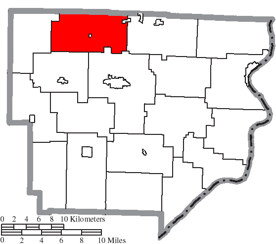 Map of the municipal and township boundaries of Monroe County, Ohio, United States, as of the 2000 census, with the location of Malaga Township highlighted. Township borders are shown only in unincorporated areas in order to differentiate incorporated and unincorporated areas more clearly.